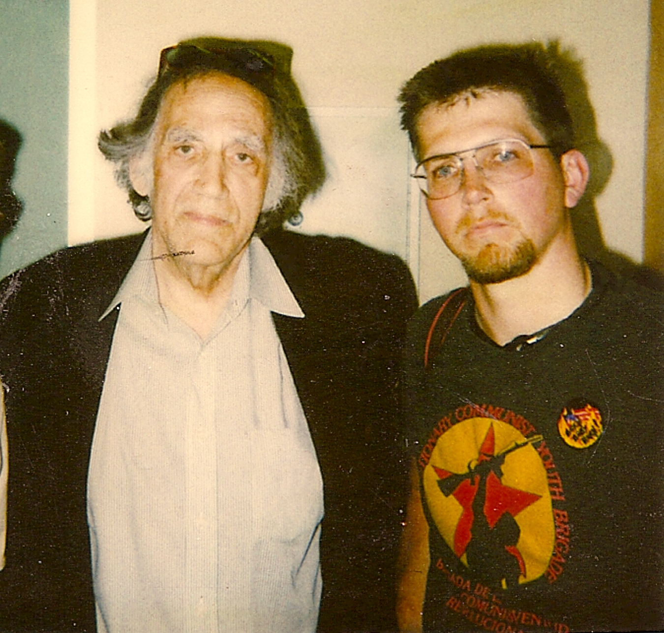 "Radical lawyer", William Kunstler, with defendant Gregory Lee Johnson, circa 1989, after giving a talk about Texas v. Johnson at the Bronx High School of Science.